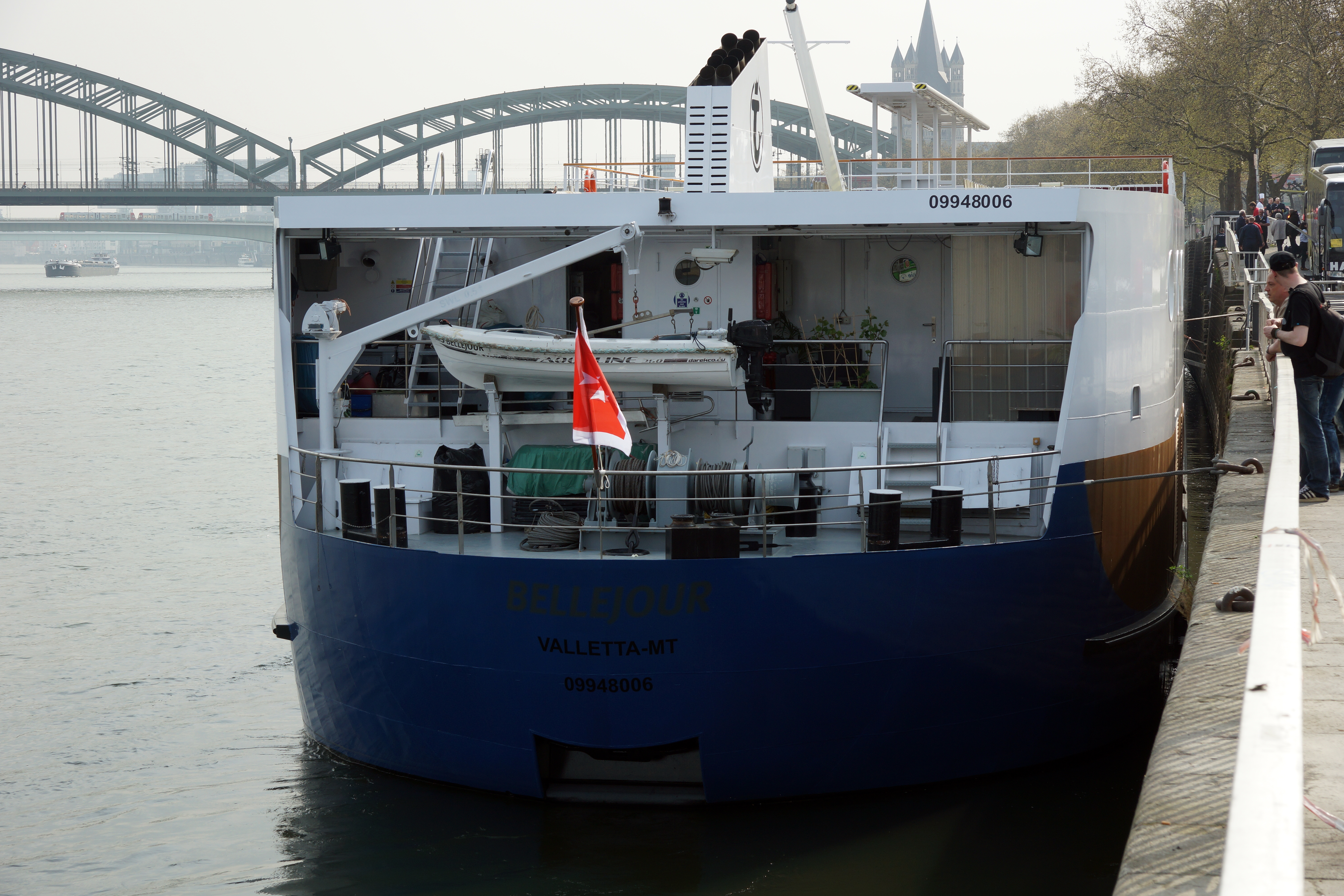 River cruise ship Bellejour in Cologne.